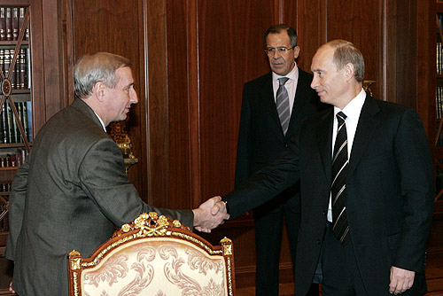 THE KREMLIN, MOSCOW. With the Russian Ambassador to Georgia, Viacheslav Kovalenko.